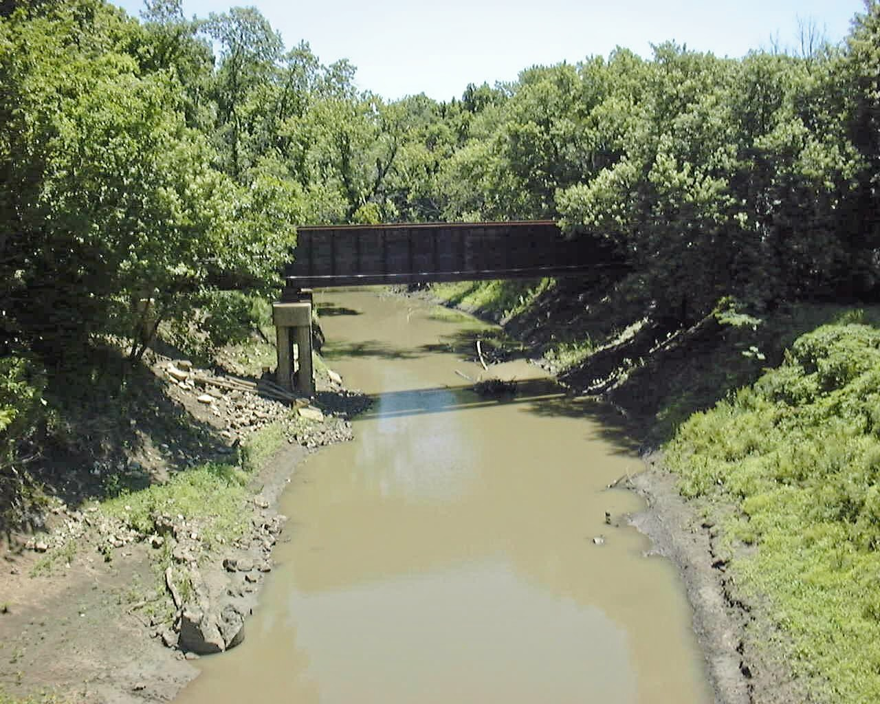 The Little Osage River near the community of Horton in Vernon County, Missouri